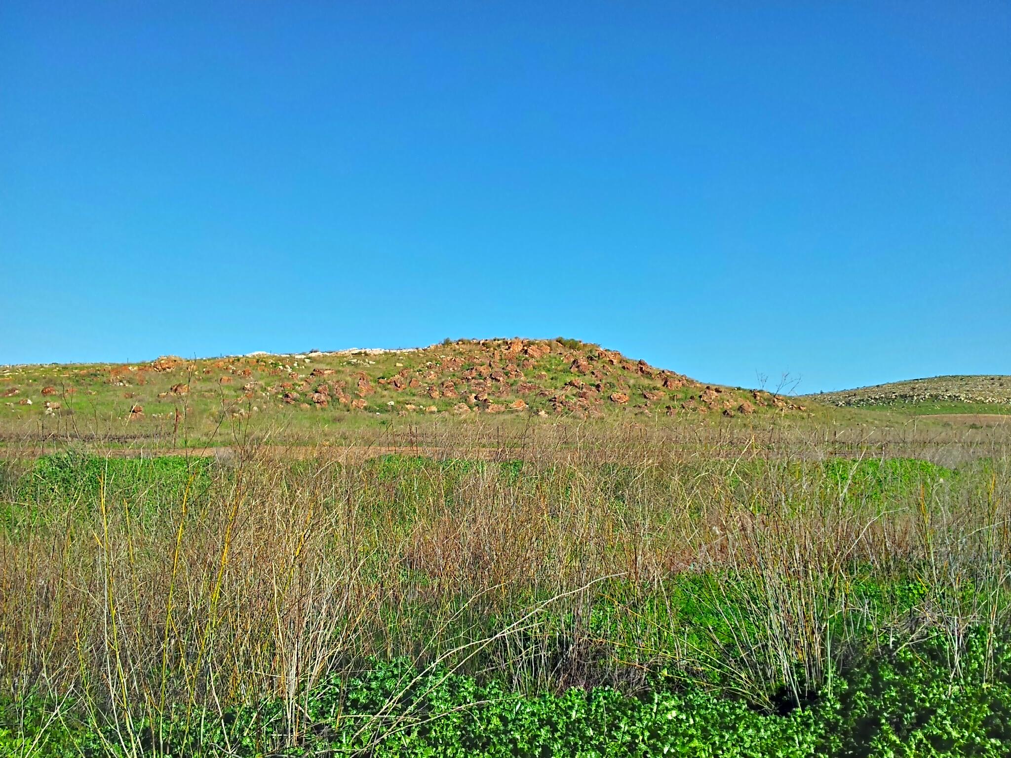 "Five Kings Stones" hill near mevo horon (Joshua chp. 10)